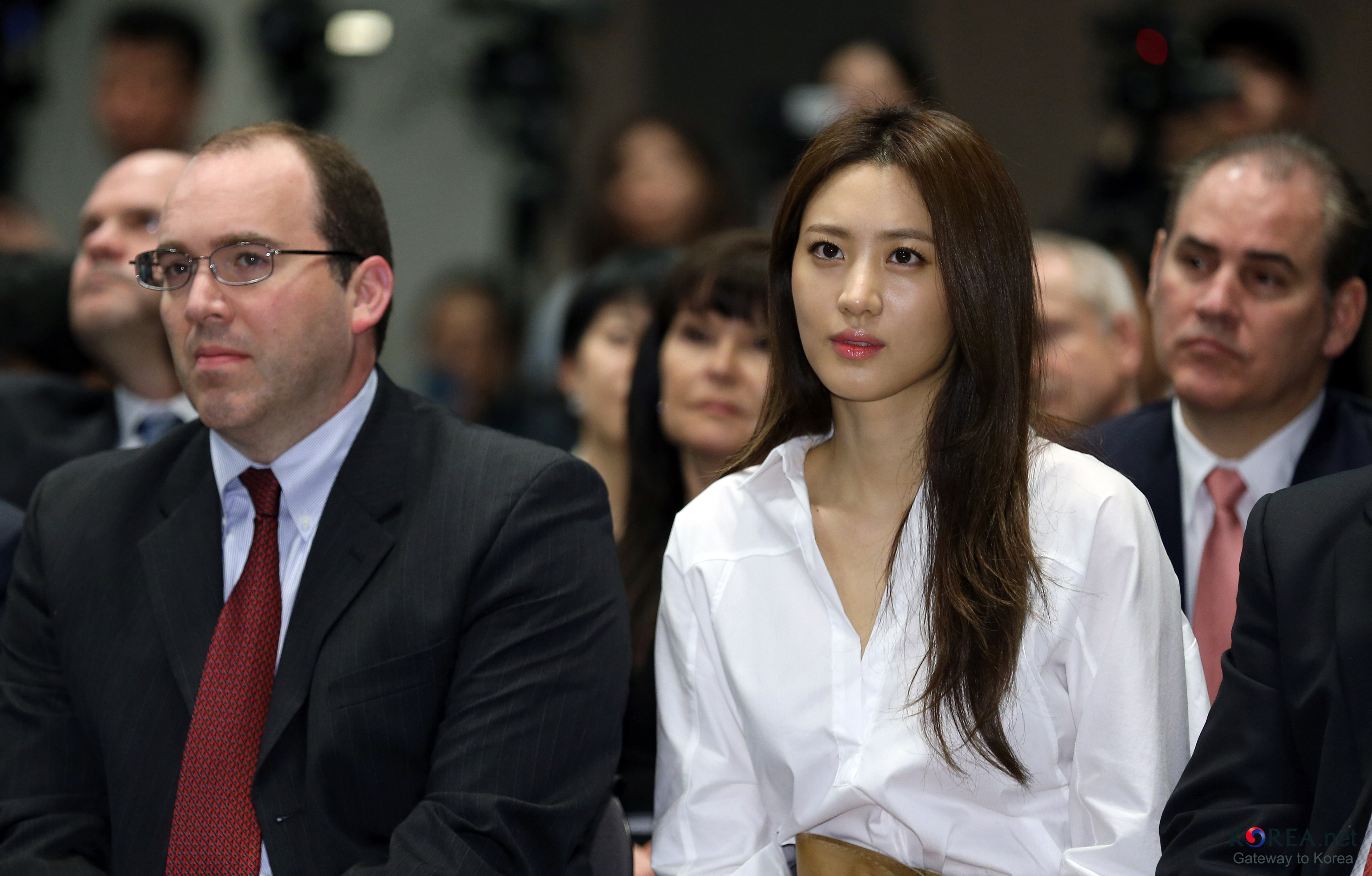 Kim Soo-hyun. Avengers: Age of Ultron. The Korea Film Commission and four government authorities signed an MOU with Marvel Studios to film its new movie, "Avengers: Age of Ultron," in Korea.